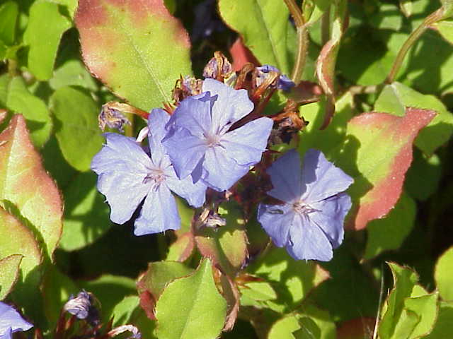 Species: Ceratostigma plumbaginoides Family: Plumbaginaceae Image No. 1